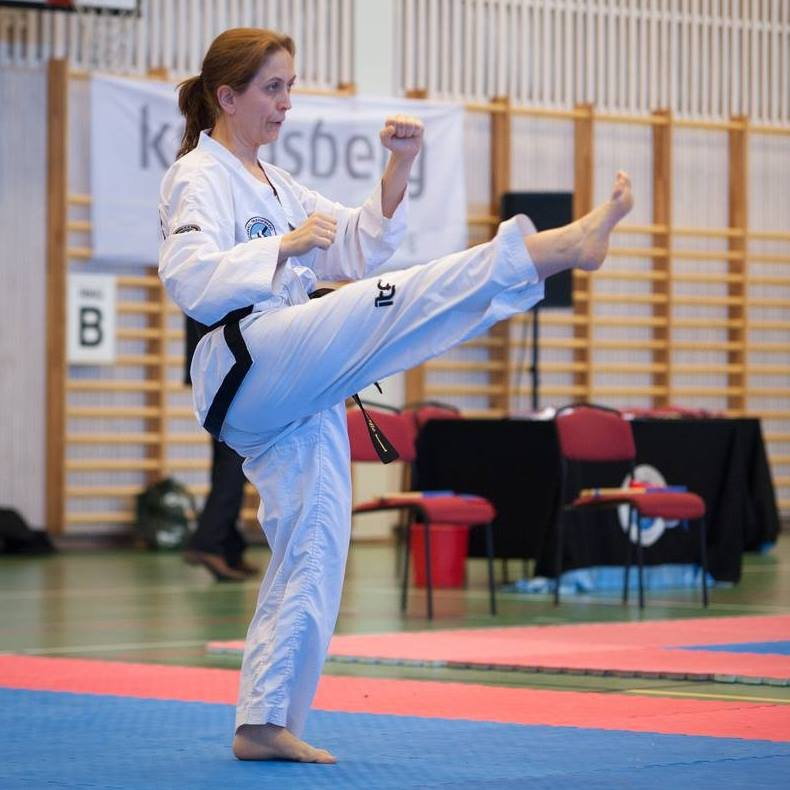 The Norwegian cellist Marianne Baudouin Lie holds 1. DAN in ITF Tae Kwon Do